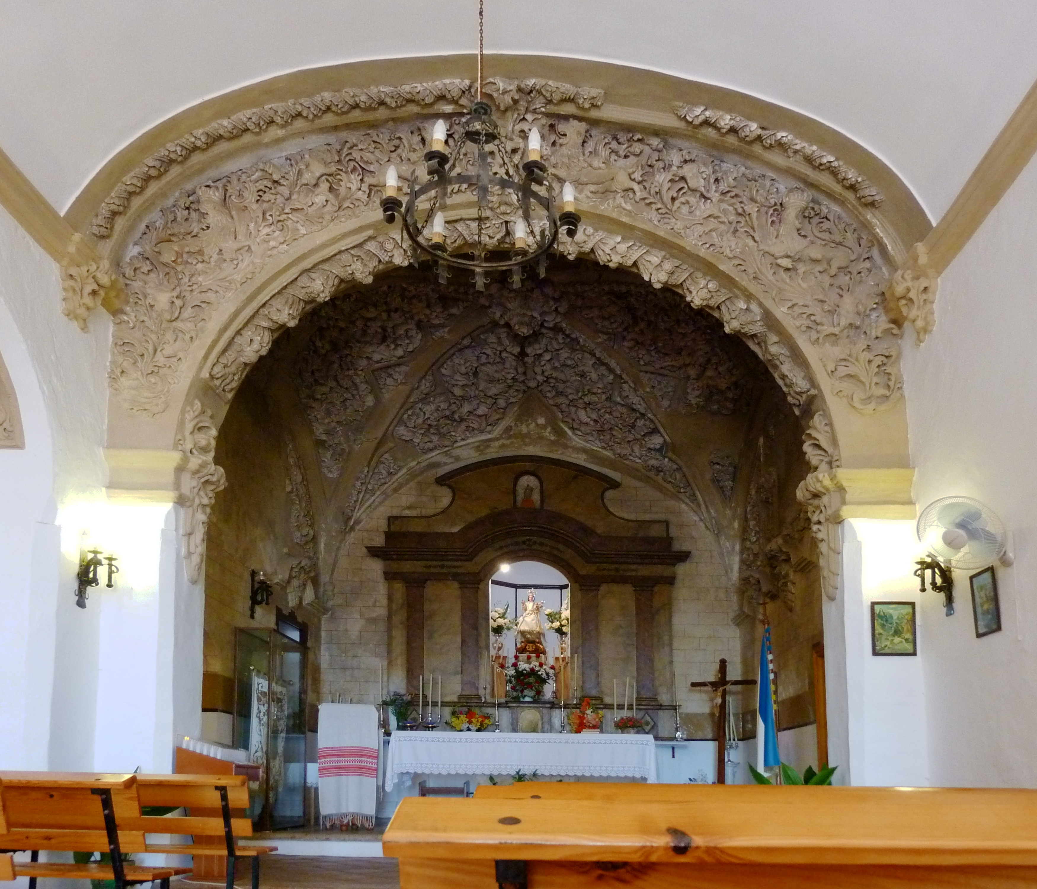 Gaucín, hermitage of the Holy Child